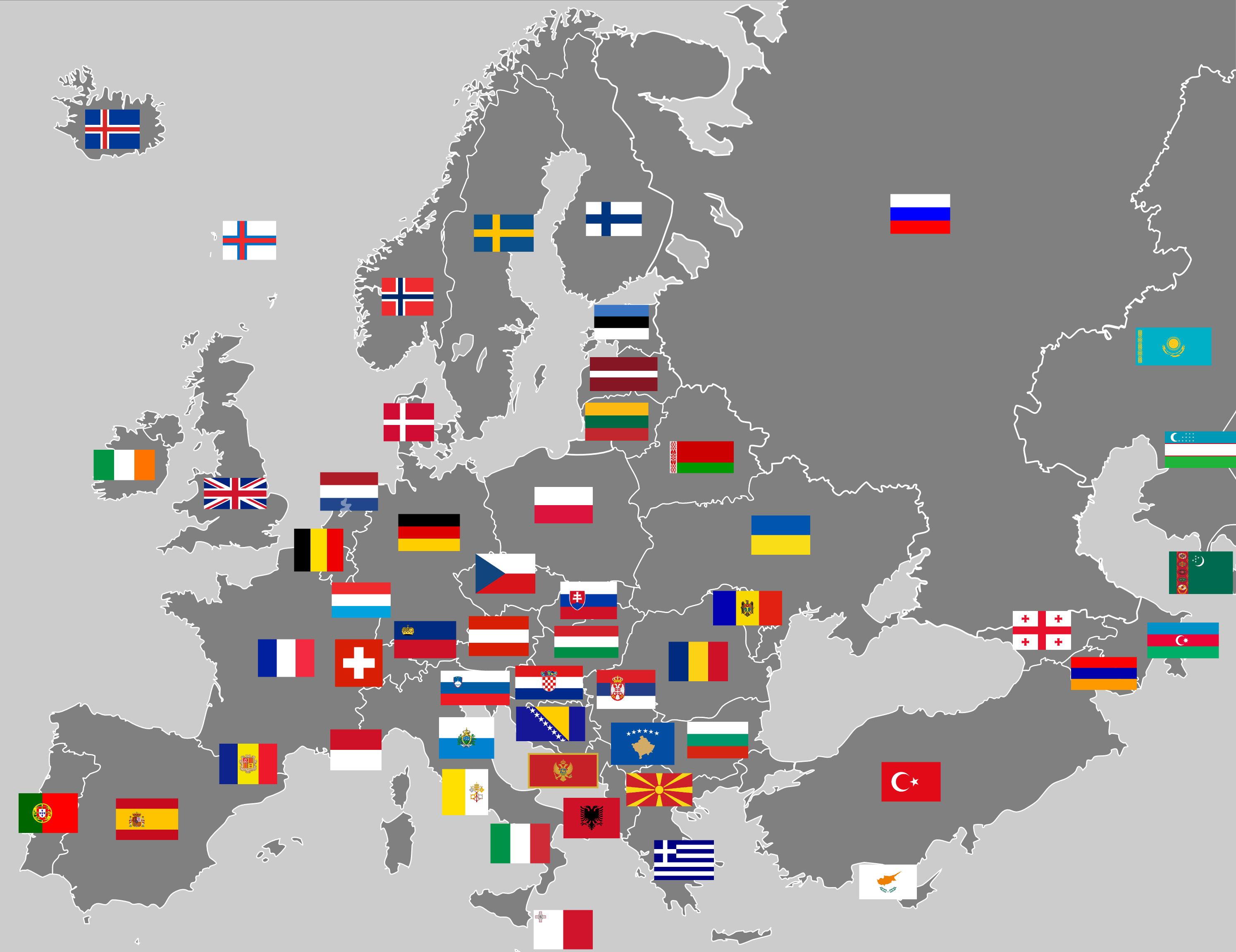 Map of European continent with flags. This is not a map of flags in "traditional" Europe, as it includes transcontinental countries associated with Europe but with small or no parts within it. Note: The map inconsistently shows some entirely Central Asian states, some but not all dependent territories, and some but not all disputed states.